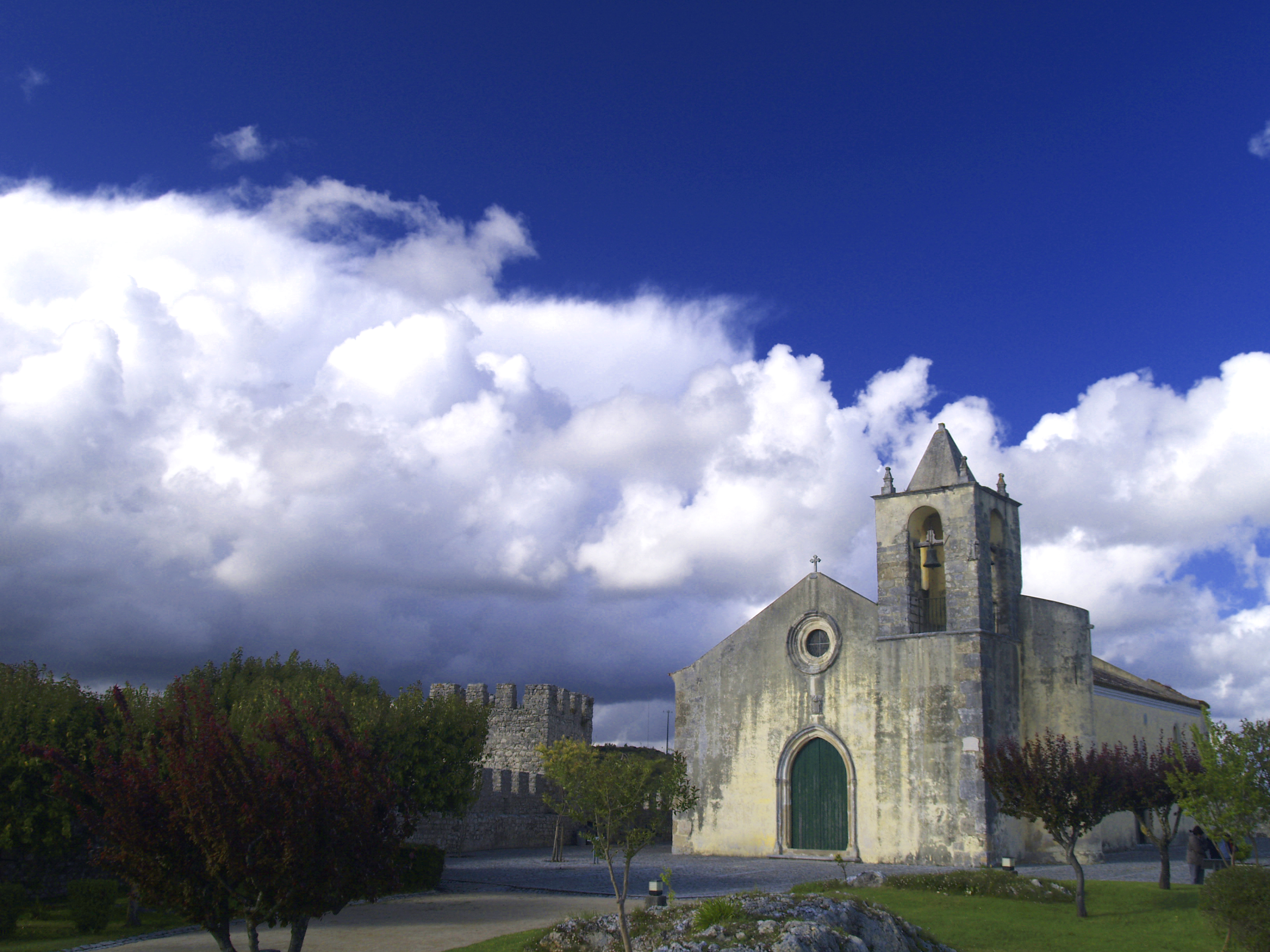 Church inside the Castle of Montemor-o-Velho